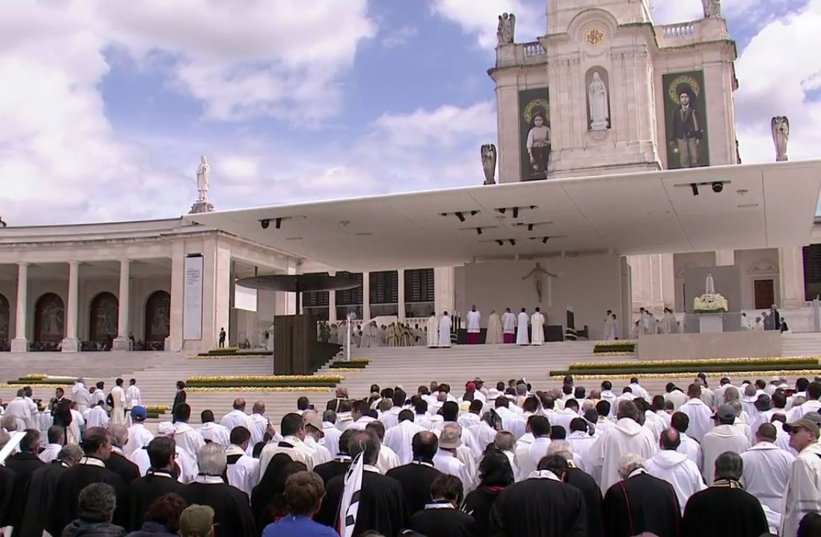 Canonization of St. Francisco Marto and St. Jacinta Marto, by Pope Francis, on the Basilica of Our Lady of the Rosary, in Fátima, Portugal (13 May, 2017). Tašlḥiyt/ⵜⴰⵛⵍⵃⵉⵜ: Canonização de São Francisco Marto e Santa Jacinta Marto, pelo Papa Francisco, na Basílica de Nossa Senhora do Rosário, em Fátima, Portugal (13 de Maio de 2017).